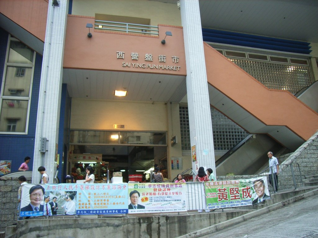 Centre Street, Sai Ying Pun, Hong Kong. 西營盤 正街. Photo created by User:SYP643